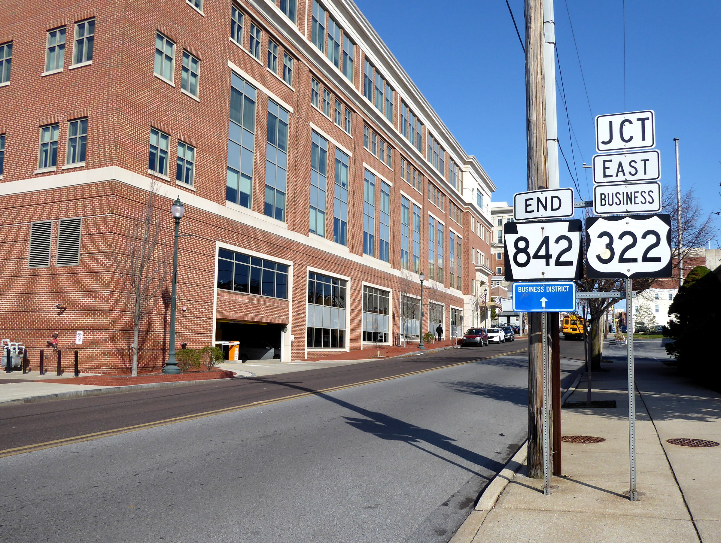 Pennsylvania Route 842 eastern terminus at U.S. Route 322 Business in Downtown West Chester, Pennsylvania.